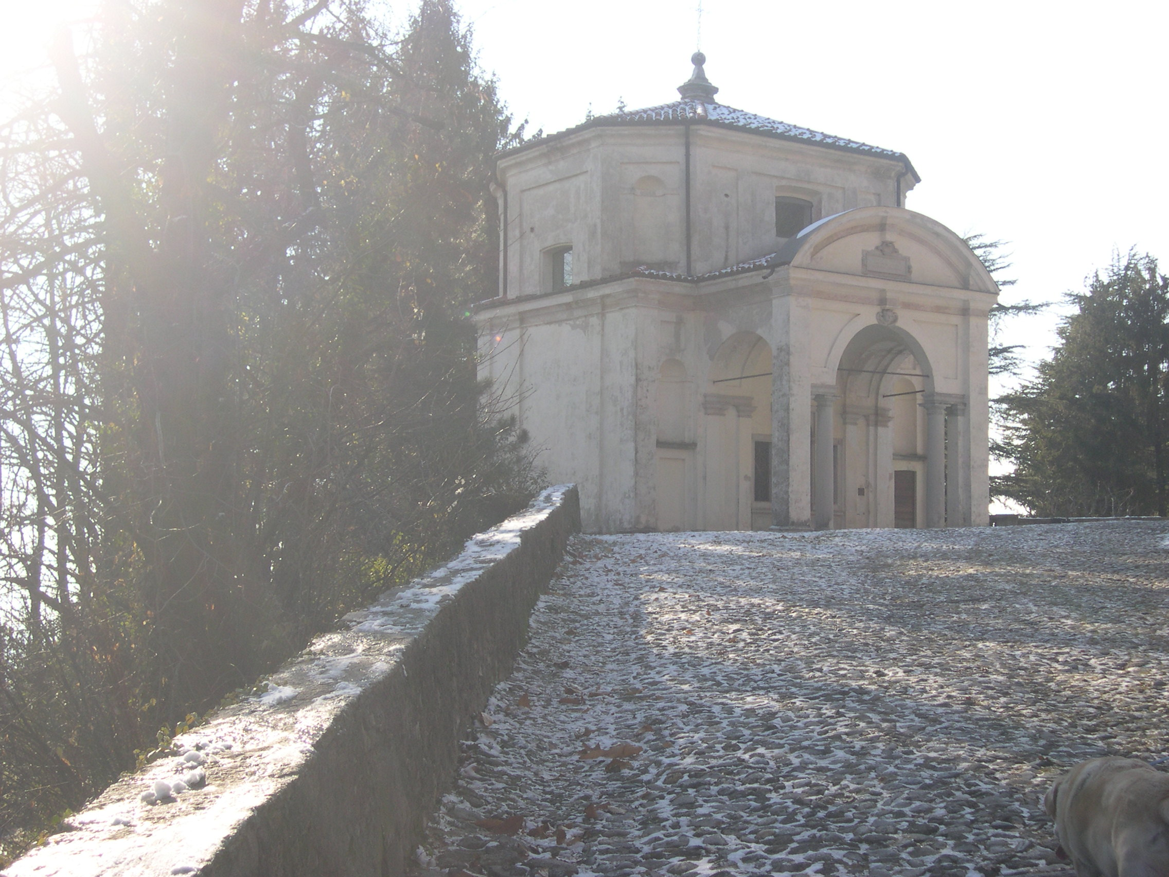 Chapel VI of Sacro Monte (Varese)